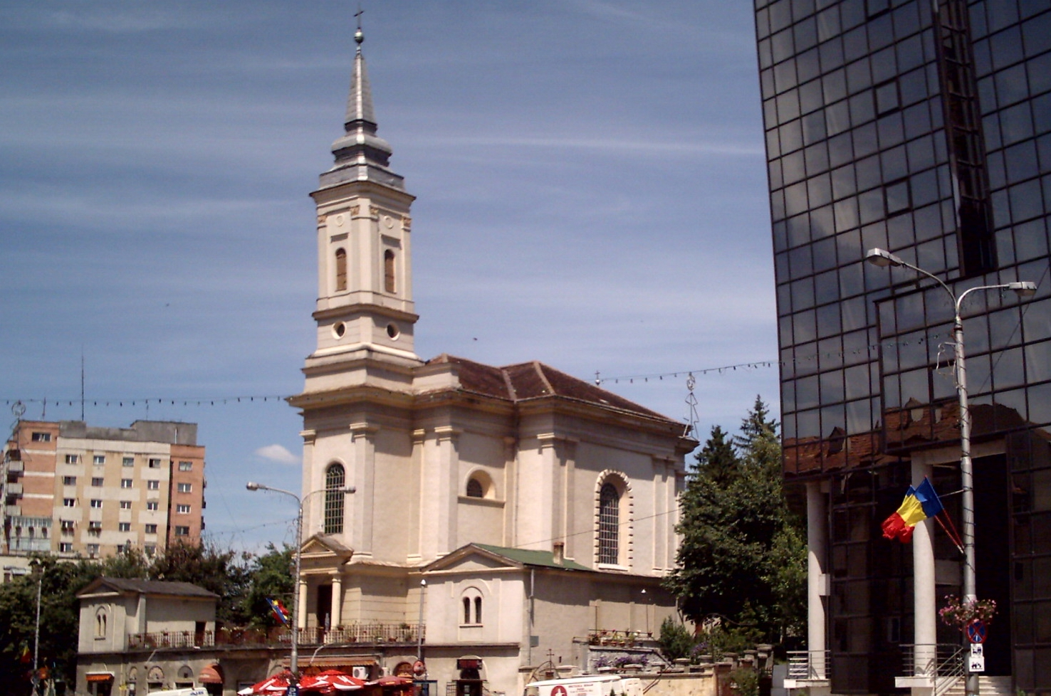 Catholic Church Made by Morar Tamás and Balázs Szilárd ( , )